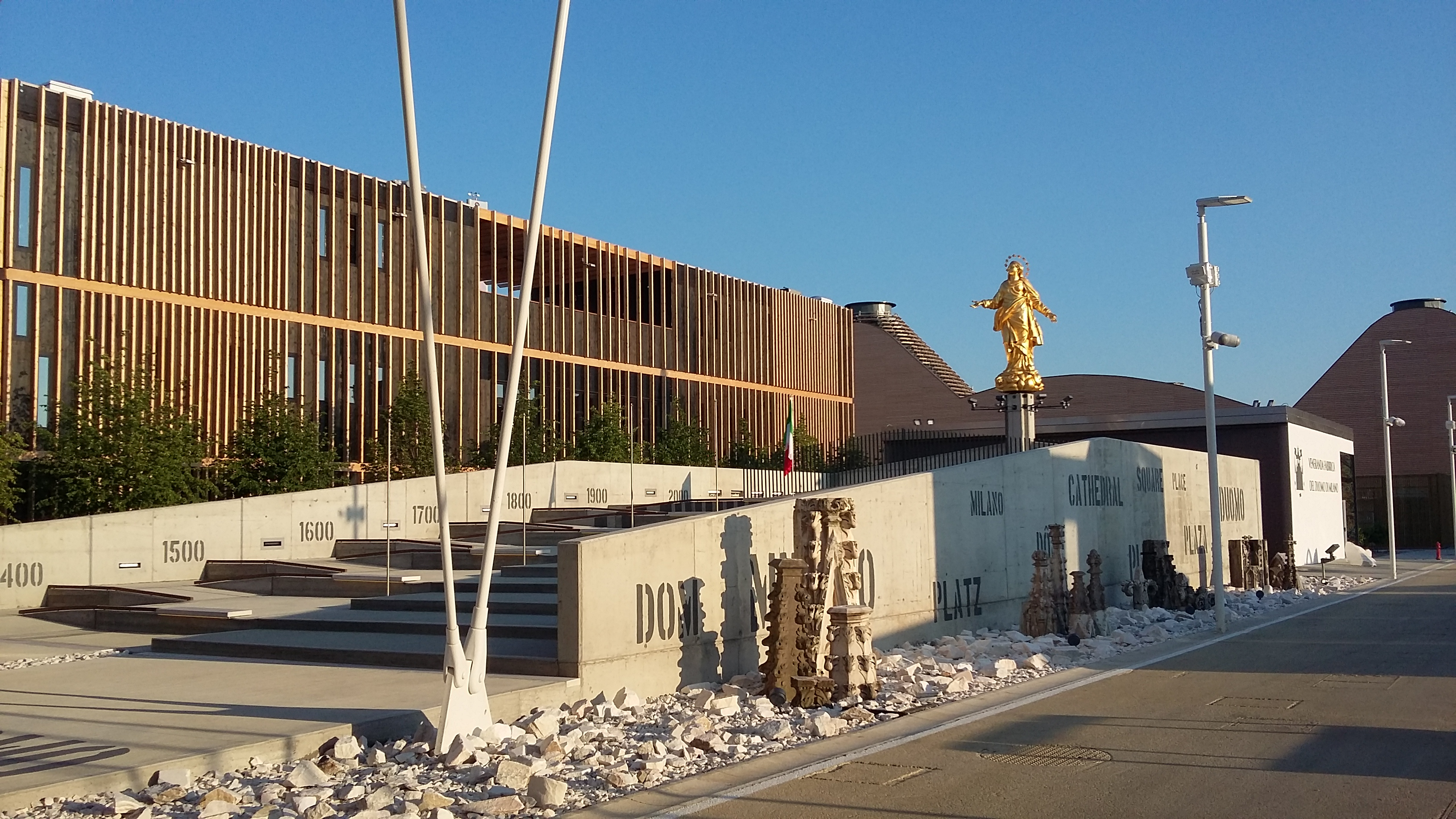 Veneranda Fabbrica del Duomo pavilion at Expo 2015 Milan